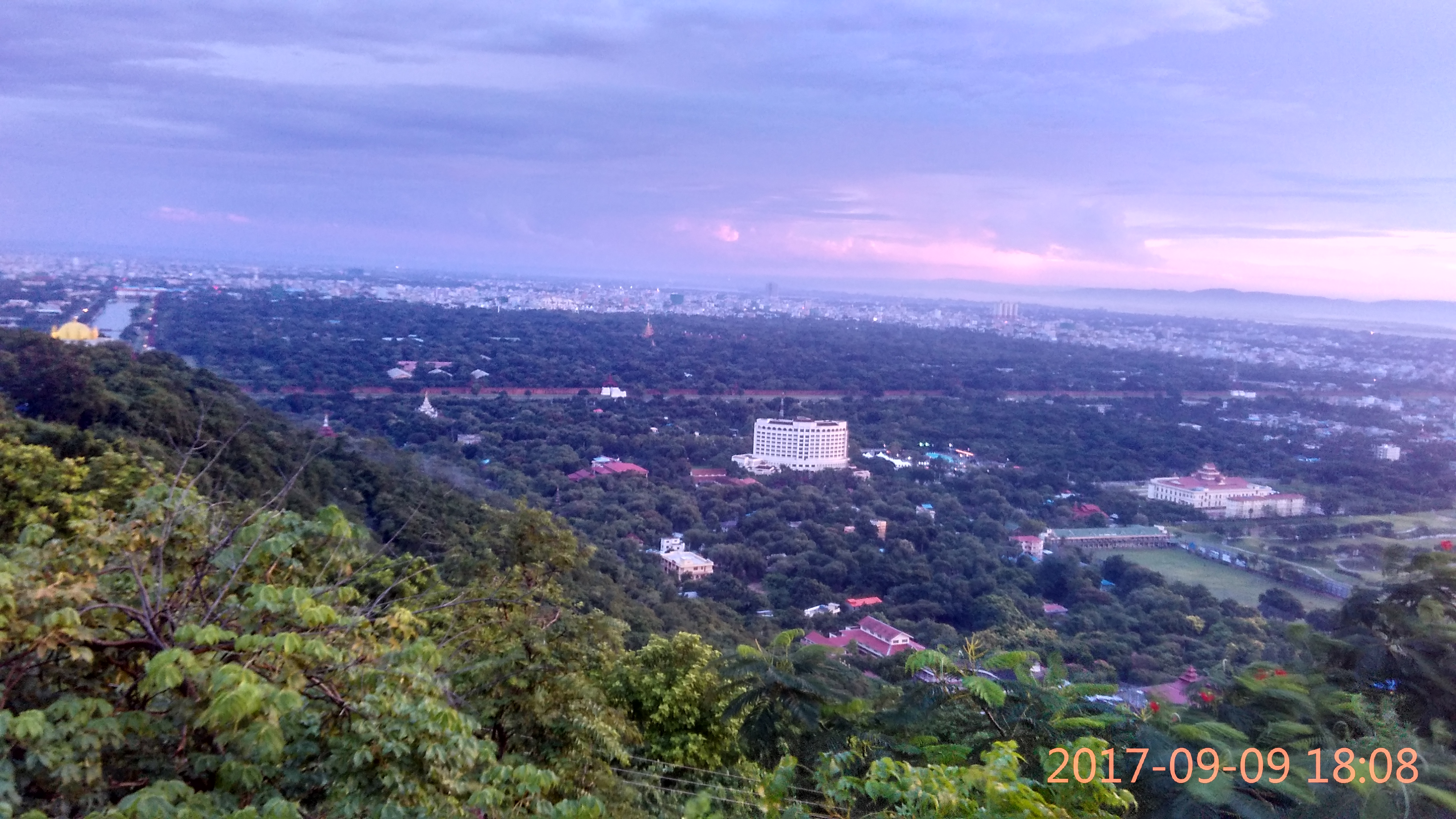 Mandalay's View from the hill မြန်မာဘာသာ: မန္တလေးမြို့ကို မန္တလေးတောင်ပေါ်မှ ရှုမြင်ရပုံ။